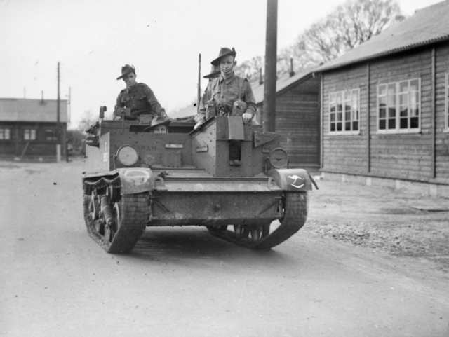 A.I.F. AT THEIR ENGLISH QUARTERS: AN AUSTRALIAN BREN GUN CARRIER CREW ON THE MOVE EXERCISING.